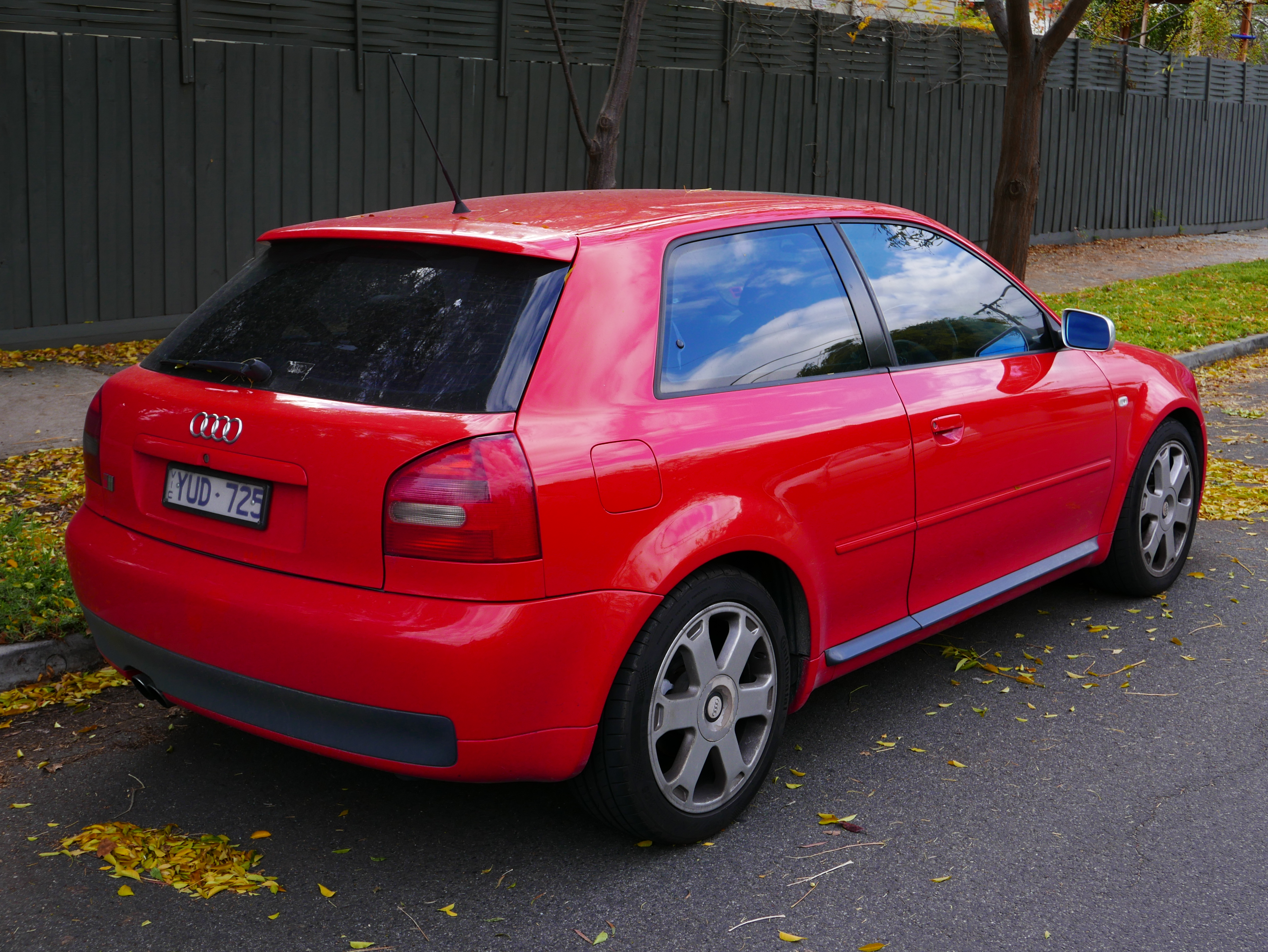 2000 Audi S3 (8L) quattro 3-door hatchback. Photographed in Northcote, Victoria, Australia. Vehicle registration enquiry resultsJurisdictionVictoriaRegistrationYUD725Chassis codeWAUZZZ8LZYA140991Engine codeAPY013810Compliance date2000-08Year of manufacture2000